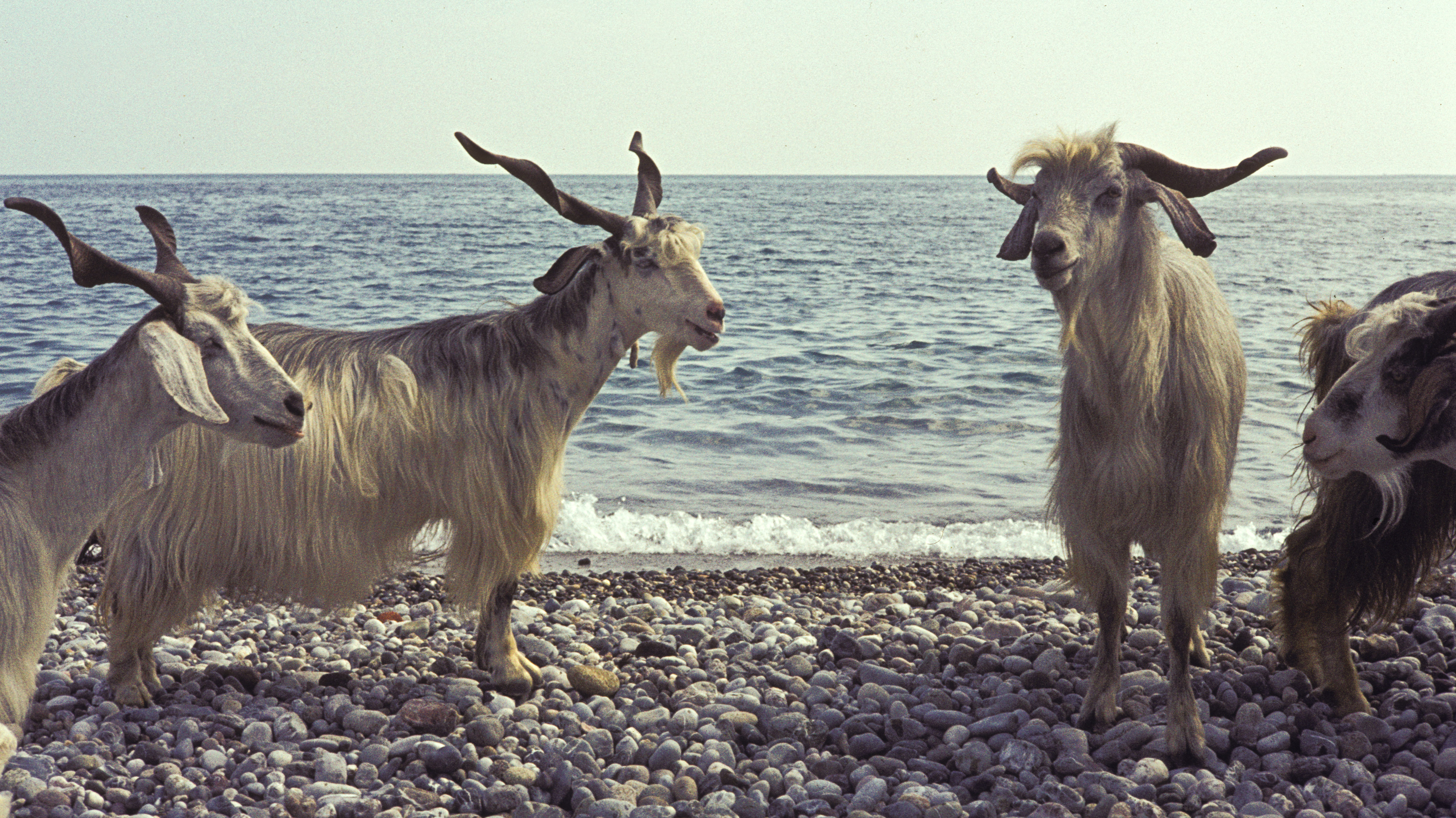 Goats on Sicily